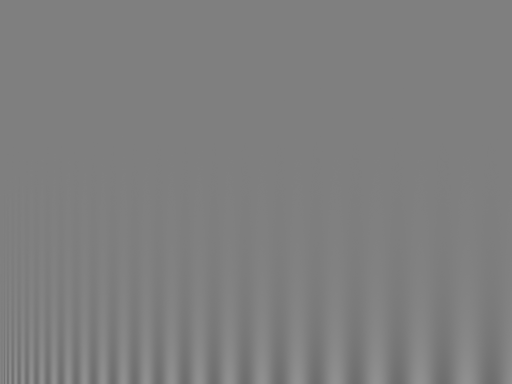 Illustration for function of contrast sensitivity.